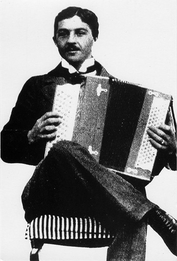 Carl Jularbo (6 June 1893 - 13 February 1966), well known as Calle Jularbo and born as Karl Karlsson, was the most famous Swedish accordionist of his time.